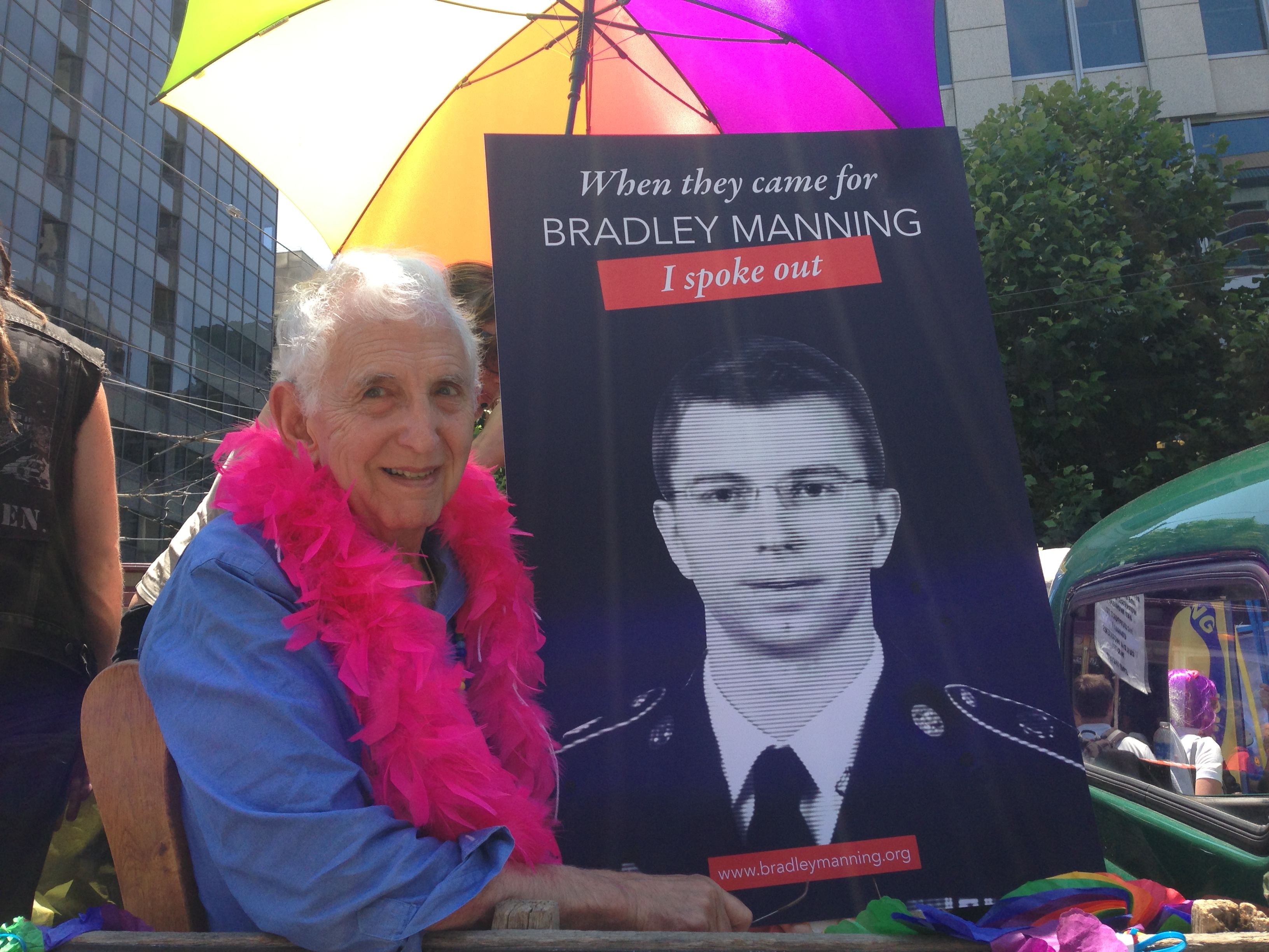 Daniel Ellsberg at San Francisco Pride Parade 2013. Showing his support for whistleblower Chelsea Manning